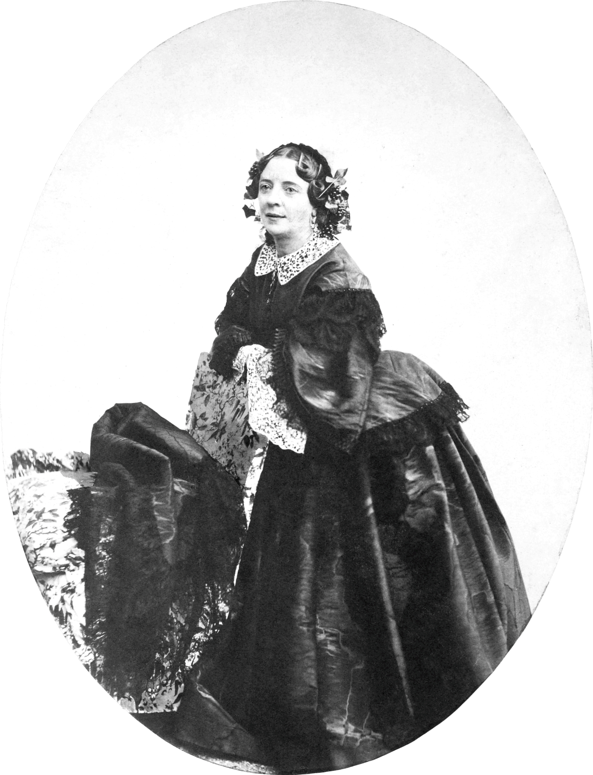 Portrait of Virginie Dejazet (1798–1875), French actress.